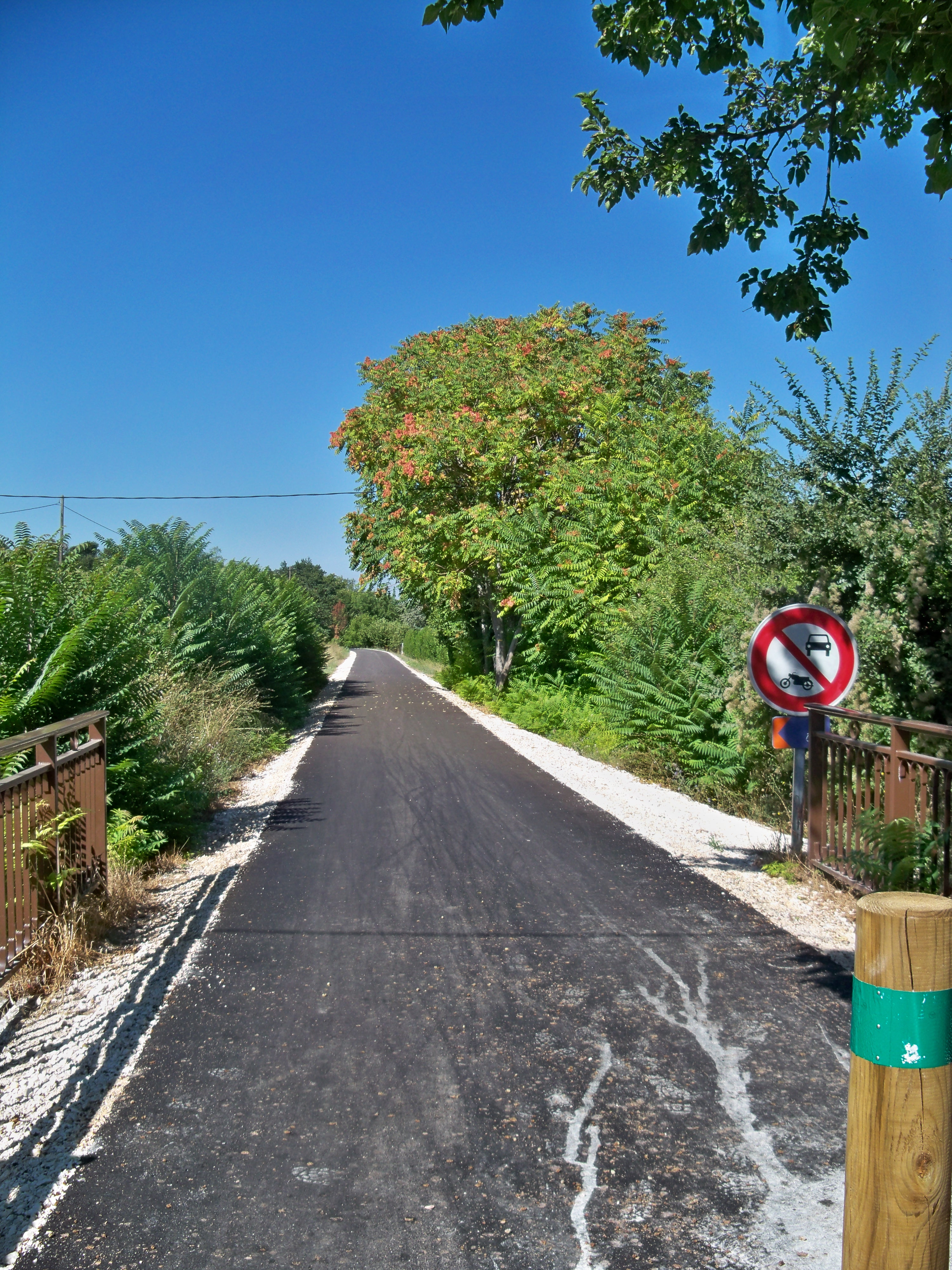 Bicycles road, near Apt, Vaucluse, France